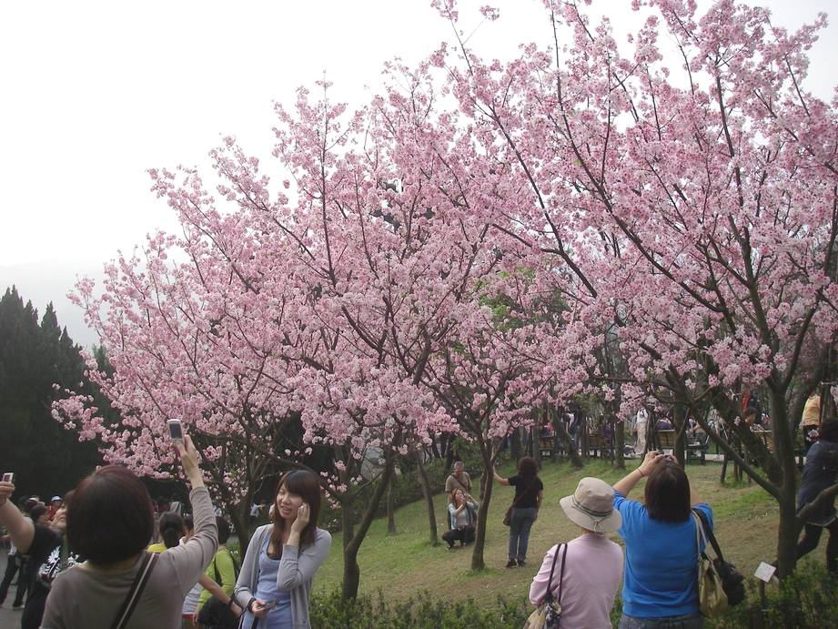 The cherry blossoms on Yang Ming Mountain, Taipei, Taiwan.